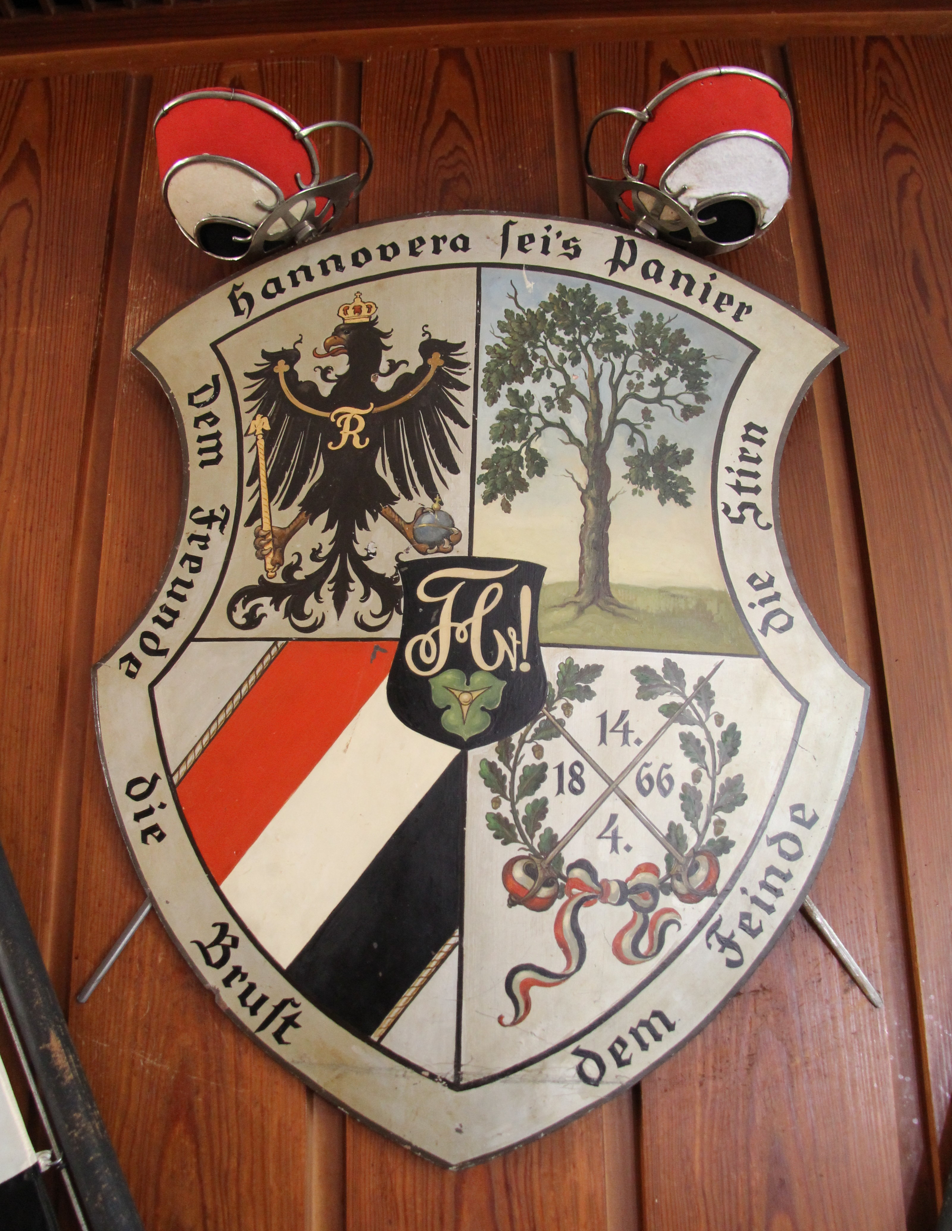 Coat of arms of student fraternity Corps Hannovera Hannover hanging on a wall in the corpshouse in Hanover/Germany, Theodorstrasse 17